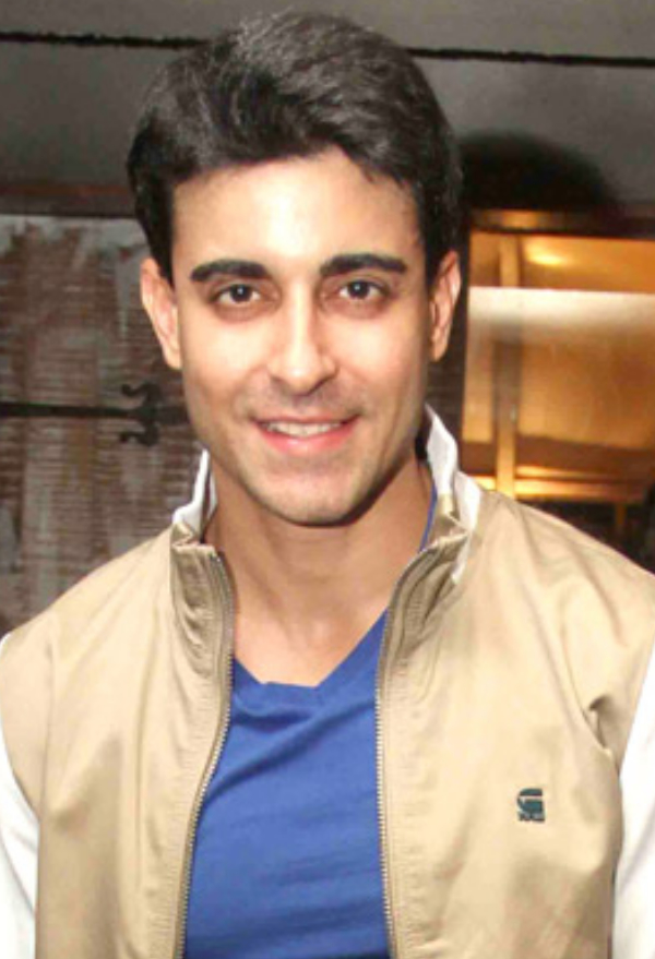 Gautam Rode at the launch of Brickhouse Cafe & Bar at Lokhandwala Complex